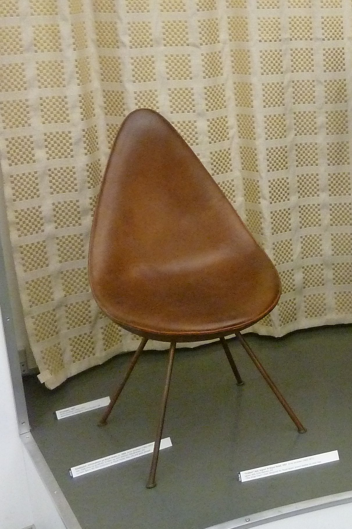 "The Drop", chair by Arne Jacobsen